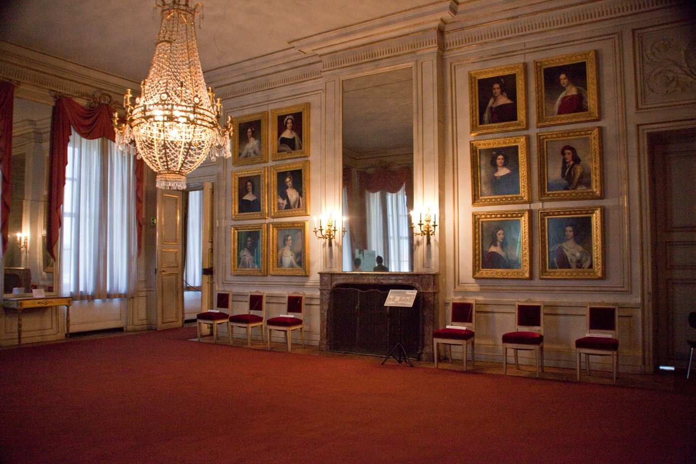 Munich, Nymphenburg palace, interior